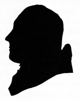 Carl Gottfried Seuerling, (German-)Swedish actor and theatre director